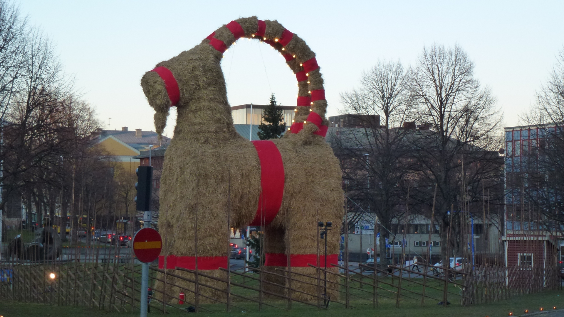 Gävle Goat (Gävlebocken), photographed on 26 November 2011, day before its inauguration. It was burned down by vandals on 2 December.